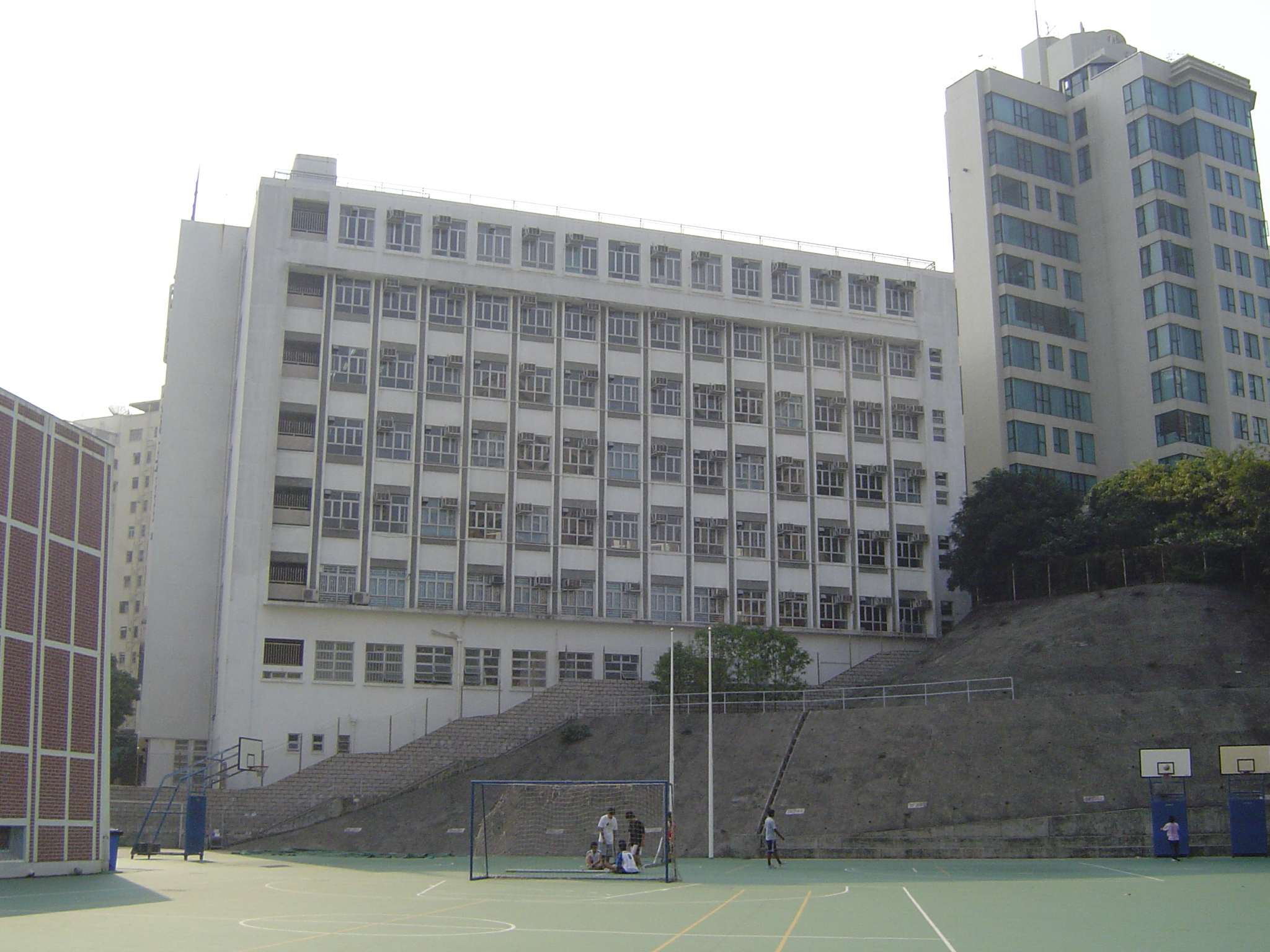 Playground of Wah Yan College, Hong Kong, with Raimondi College Primary Section behind (white building) 香港華仁書院球場，後方白色建築為高主教書院小學部